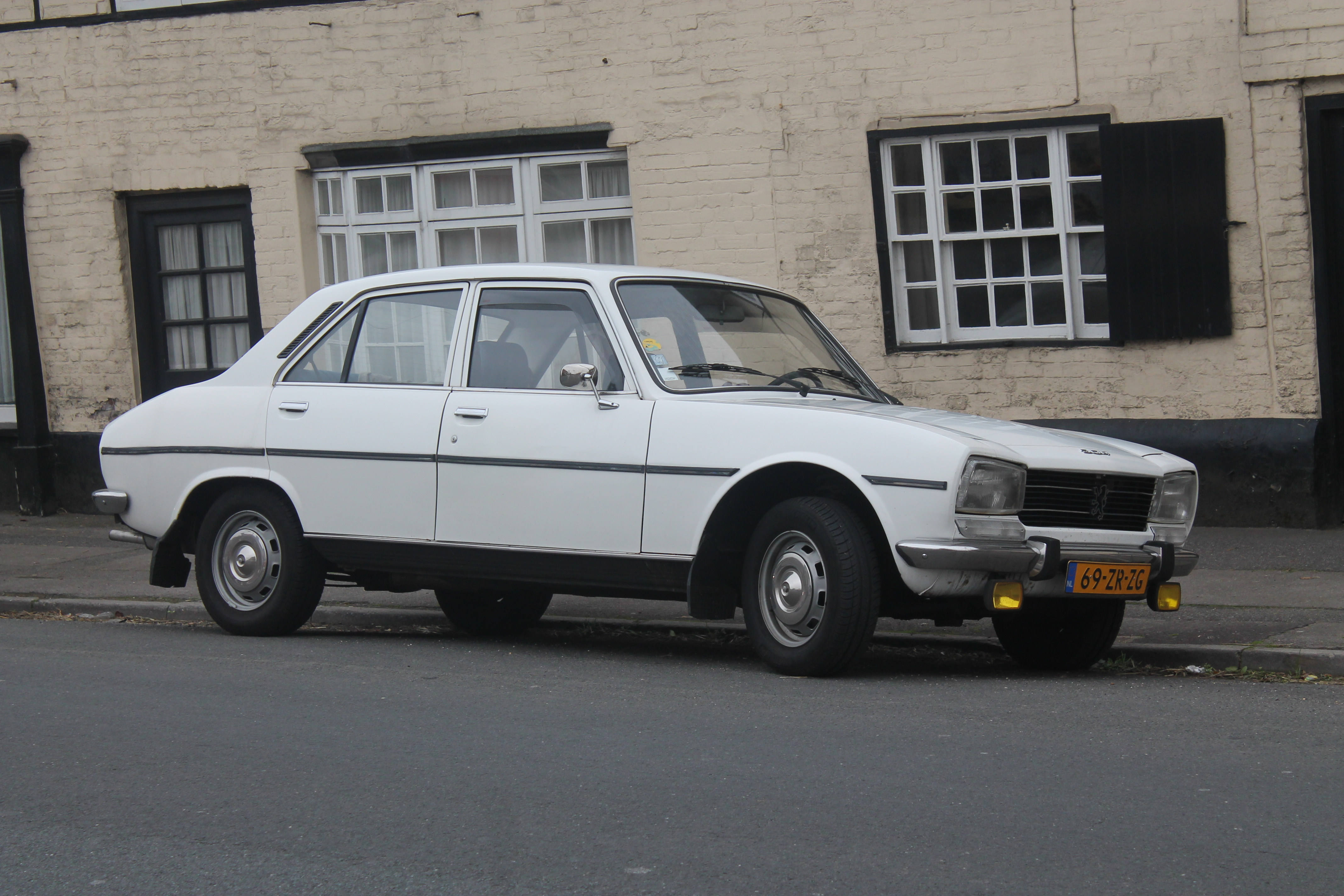 Lovely to see this Dutch registered classic in a village not far from me. It must've some time, fairly recently travelled around 400 miles to get to where I spotted it. Here in the UK, these are not easy to come by, but I'm not sure about what they're like in the Netherlands or France. Very tidy and nice looking car, in my opinion. Got to love the French style yellow foglights!